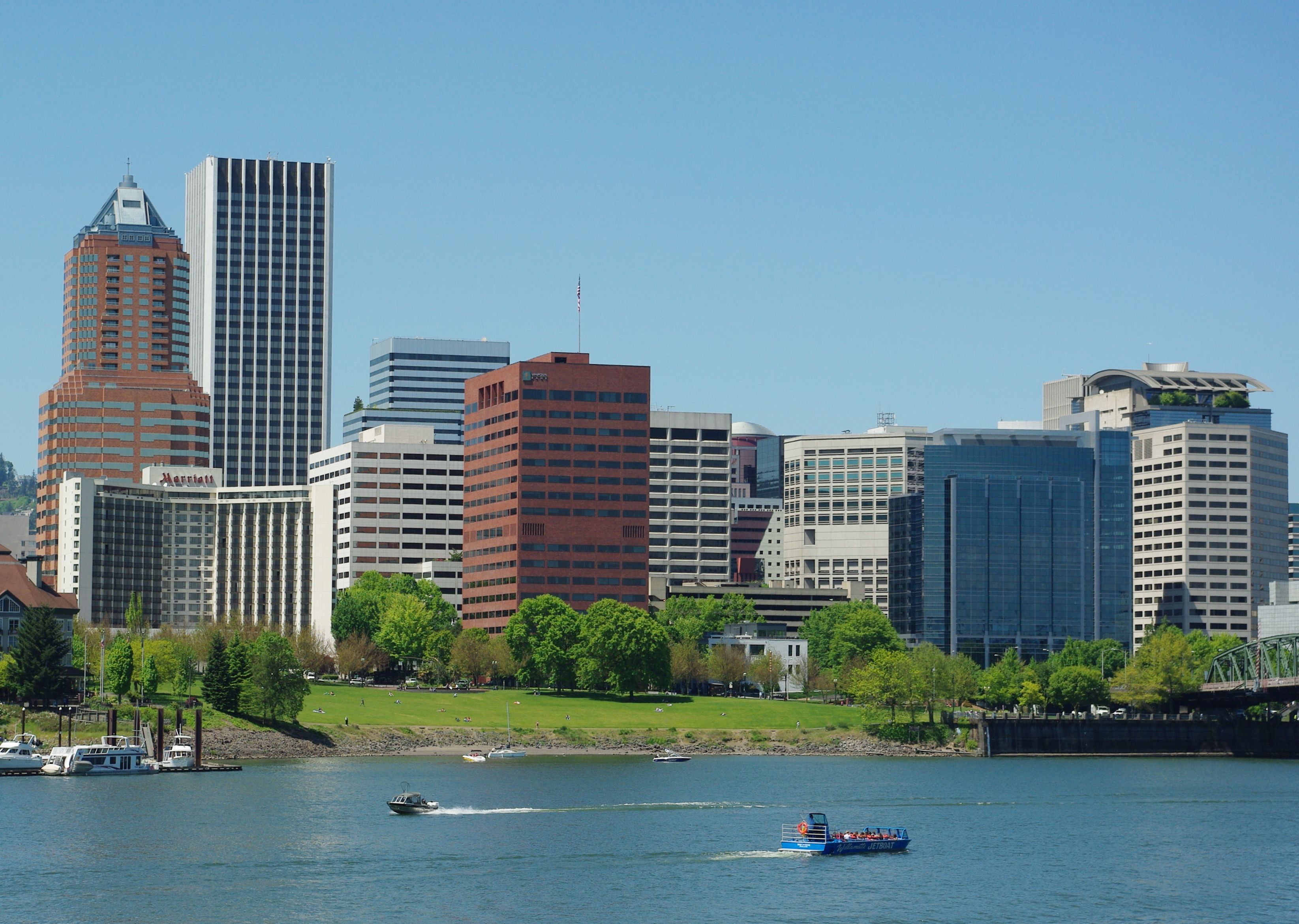 South downtown Portland, Oregon. KOIN Center on far left (pyramid top); Wells Fargo Center (tallest building, white); Umpqua Bank Plaza (brick near center); Green-Wyatt Federal Building (behind Umpqua on right); First & Main Building (dark glass on right); One Main Place (far right).